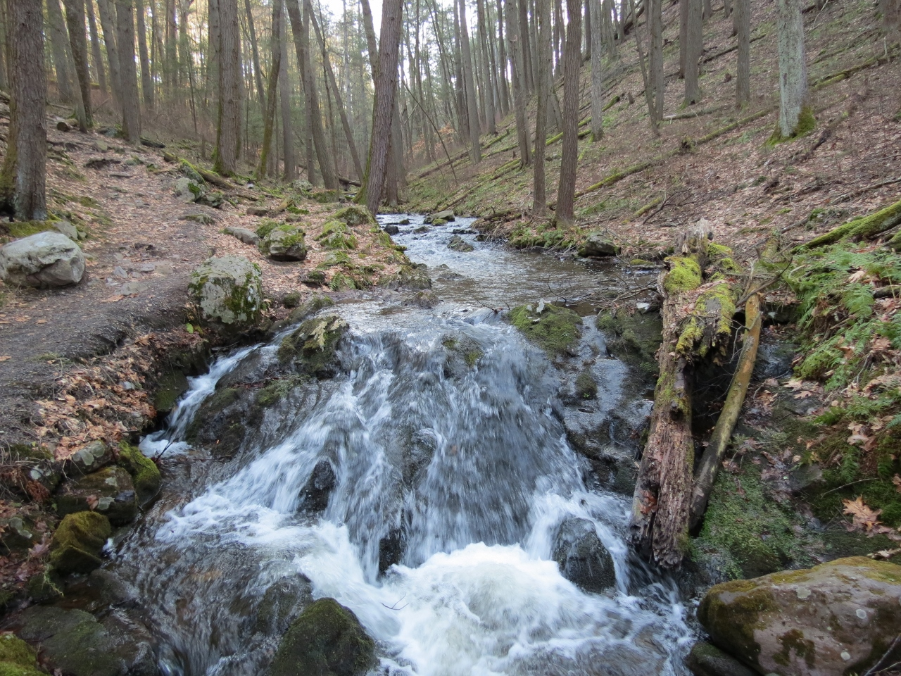 Tillmans Ravine (and Tillman Brook) on Kittatinny Mountain. Stokes State Forest, Walpack Township, Sussex County, New Jersey